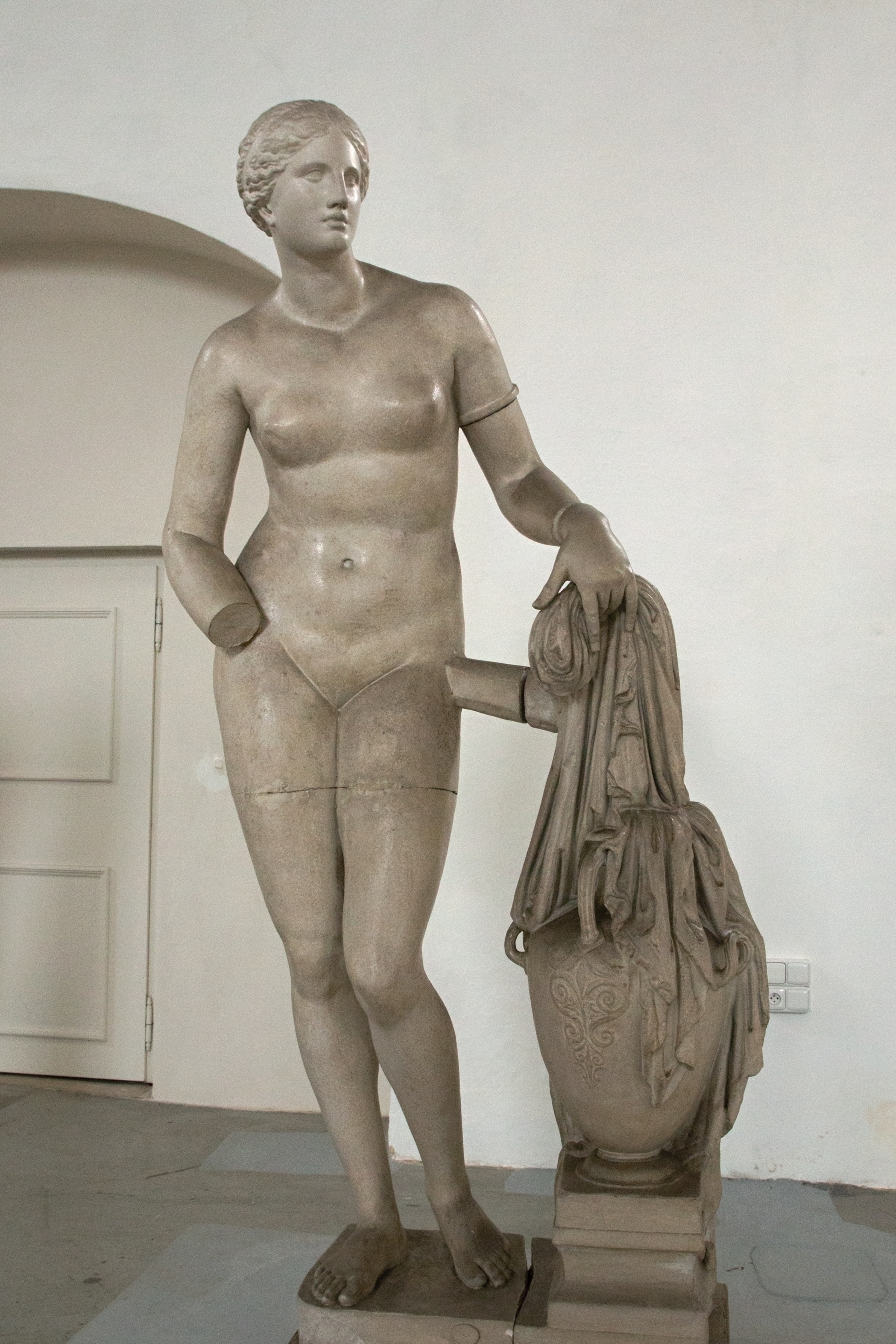 Praxiteles, Aphrodite of Knidos, around 350 BC. Plaster cast. Gallery of Classical Art in Hostinné. (The head, which is exposed to the Louvre, prof. Klein merged with the body of the Vatican collections. Roman copy is in the Glyptothek Munich.)